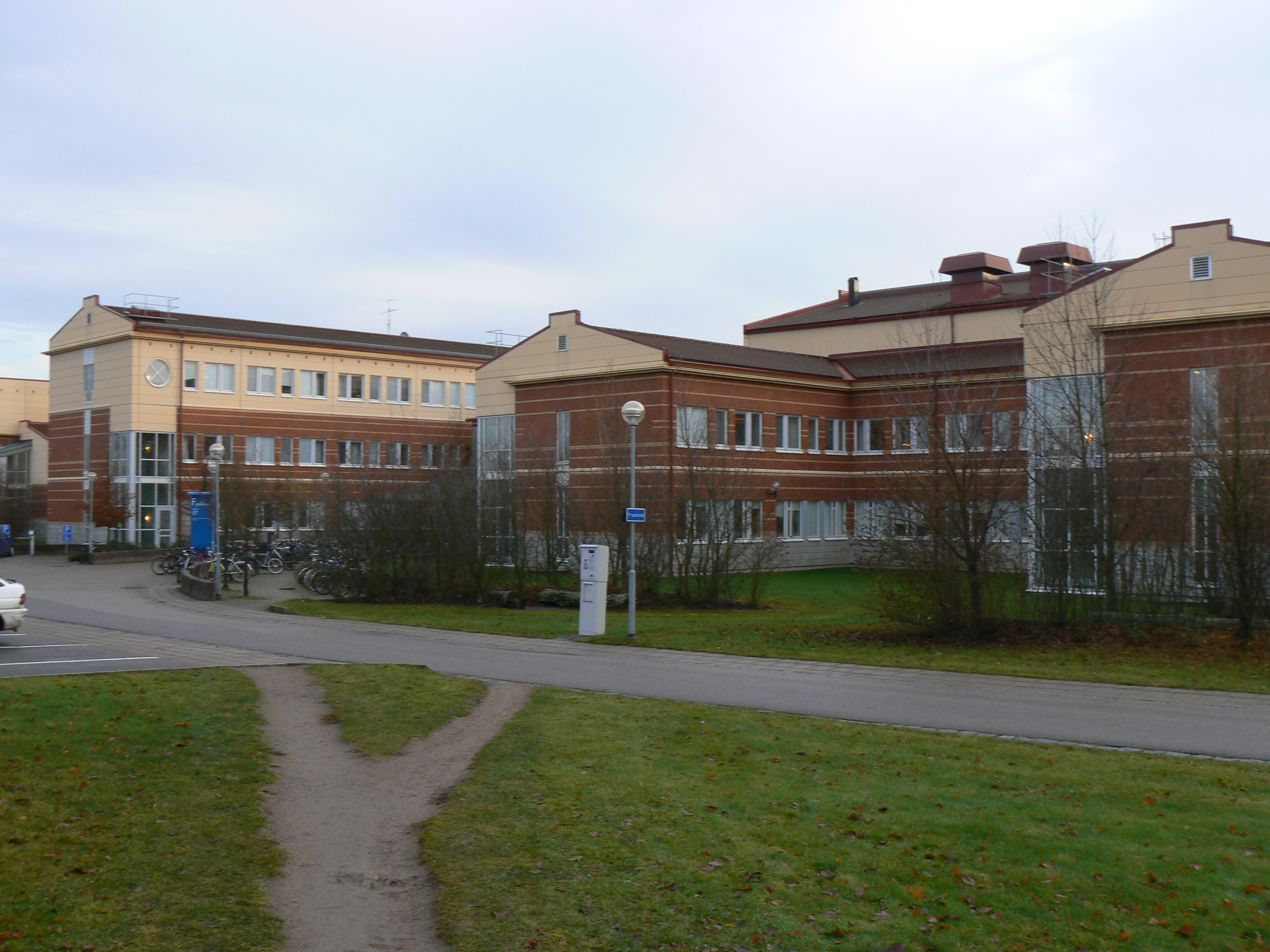 The Fysikhuset building at Linköping University, Sweden. Photo by Skvattram 2006-11-22.